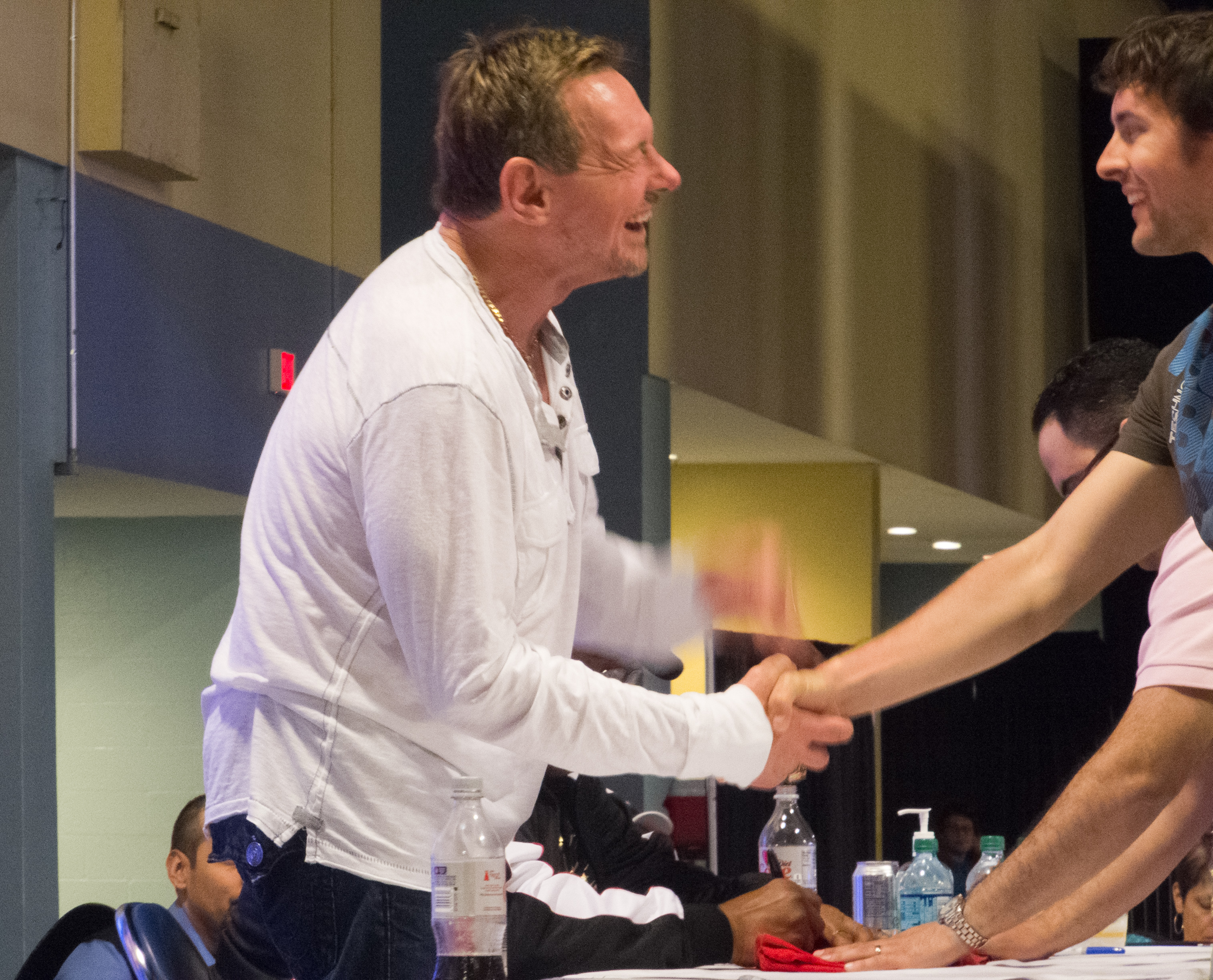 WWE Fan Axxess - Roddy Piper